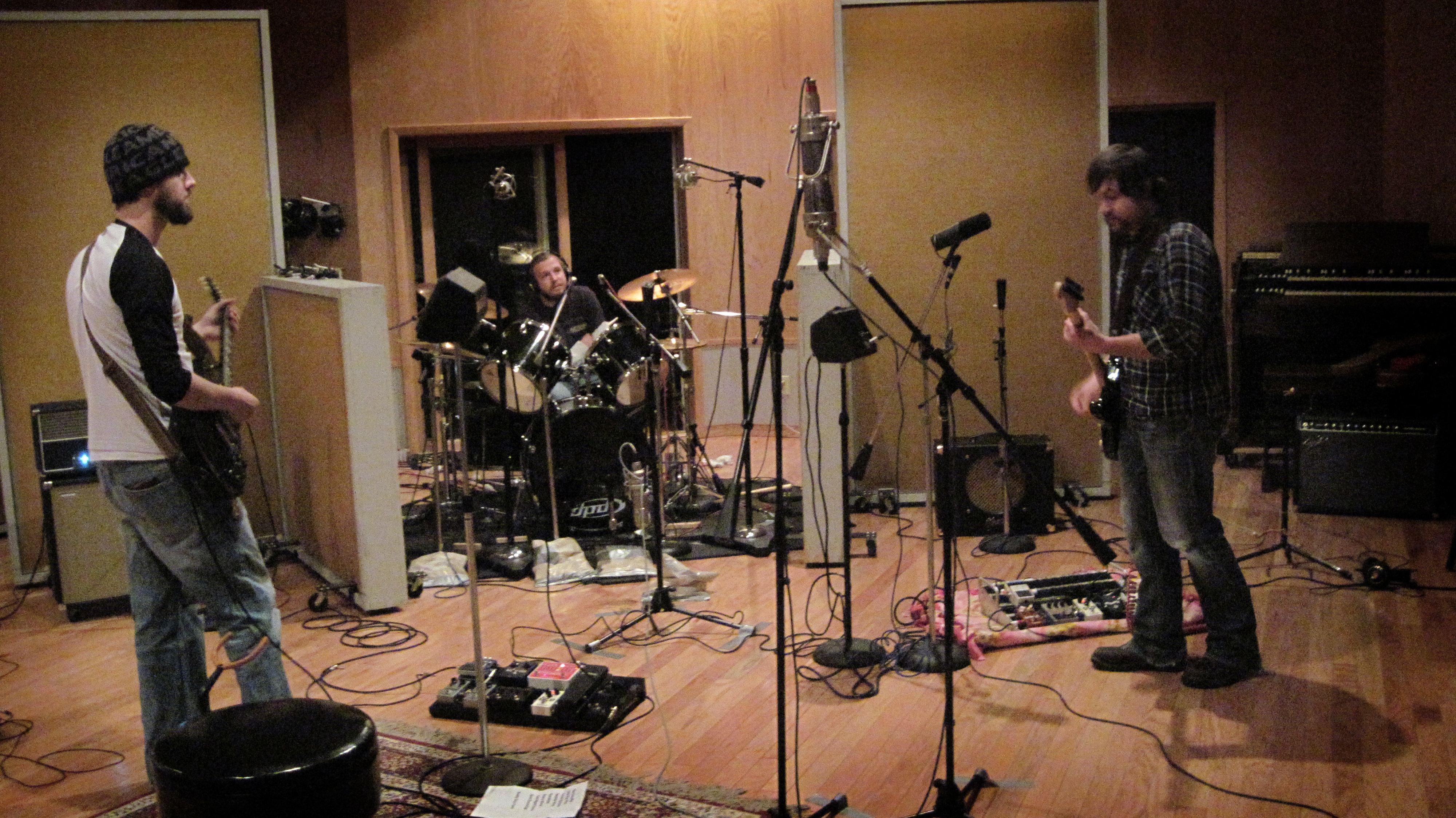 The White Elephant, recording at Catamount Studios.